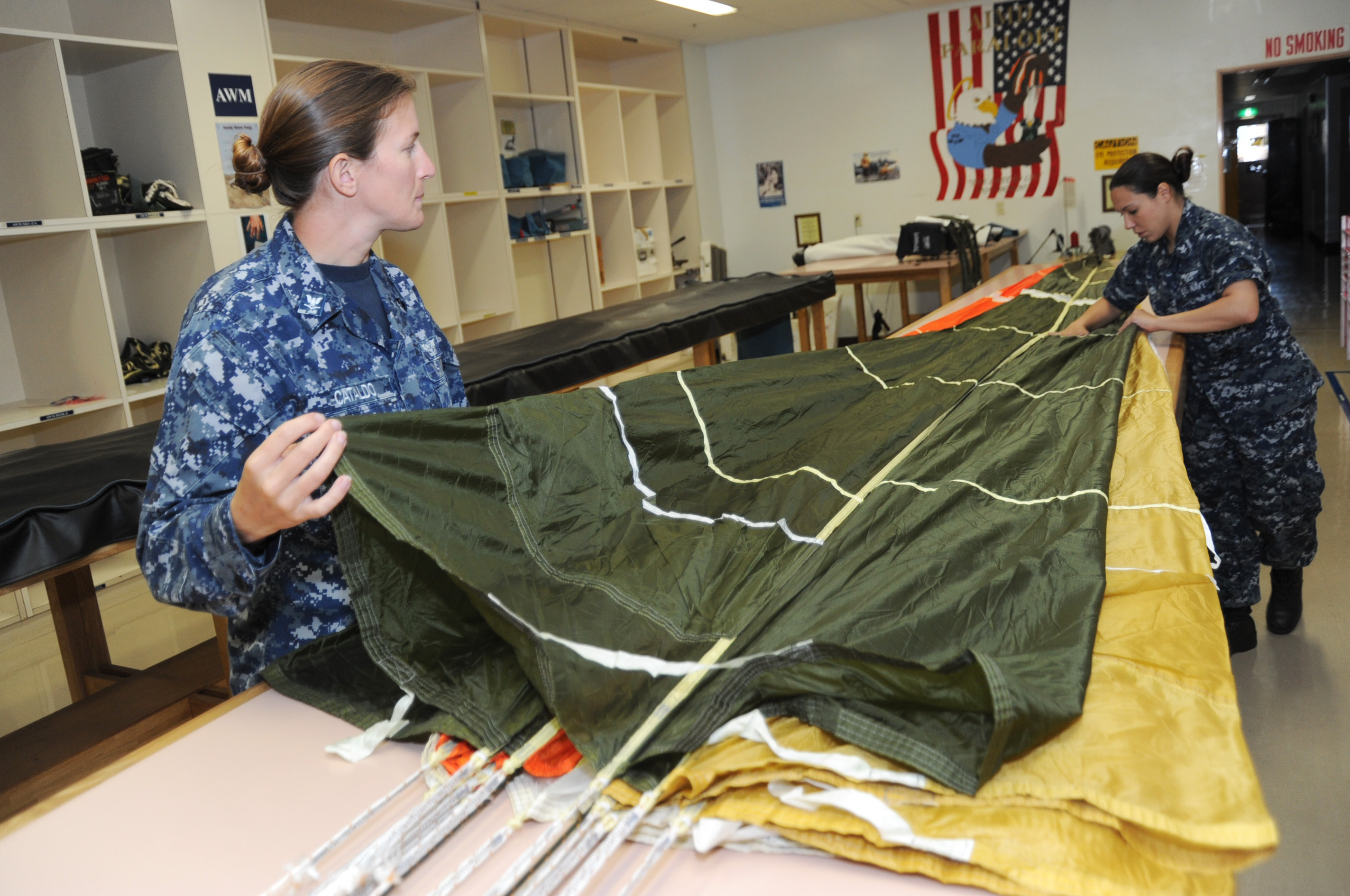 ATSUGI, Japan (July 15, 2011) Aircrew Survival Equipmentman 3rd Class Christina Cataldo, left, pulls the slack on a parachute while Aircrew Survival Equipmentman 2nd Class Sarah Miranda checks for tears at the paraloft at Naval Air Facility Atsugi. The paraloft is part of the Aircraft Intermediate Maintenance Department and is where the aviation life equipment on base in maintained. (U.S. Navy photo by Mass Communication Specialist 2nd Class Justin Smelley/Released)